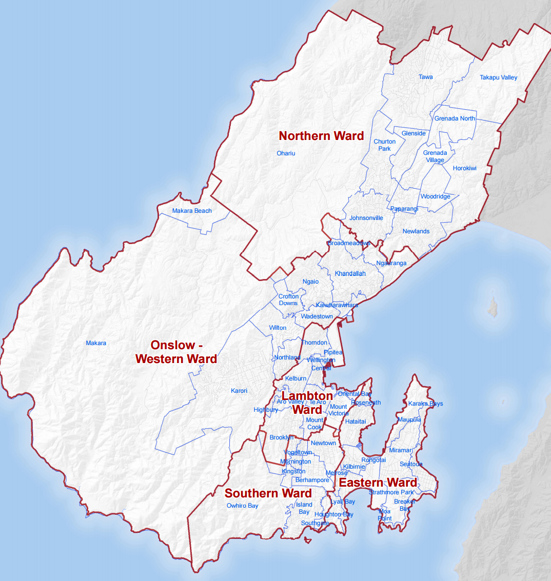 Map of the internal divisions of Wellington, New Zealand